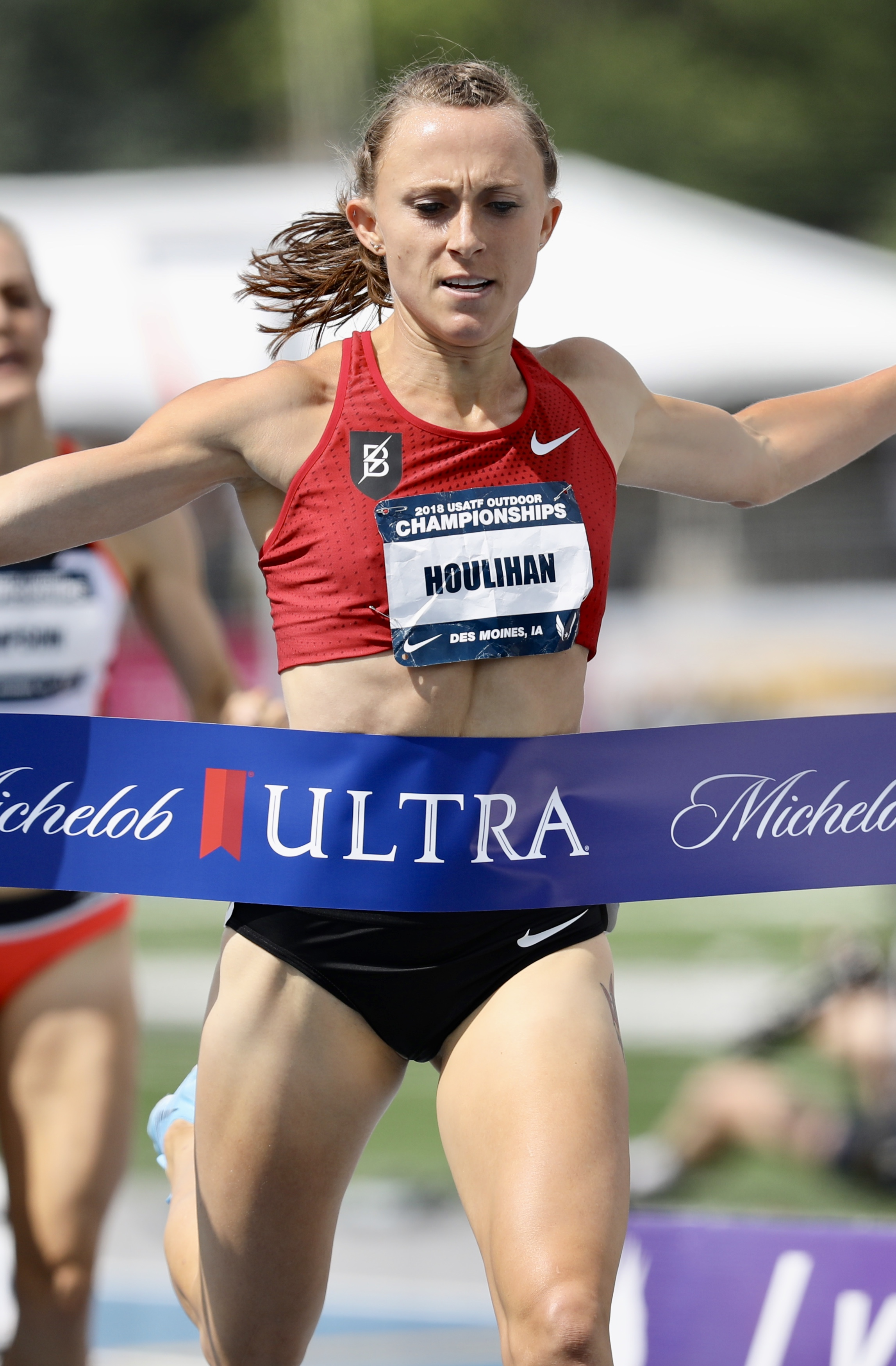 Shelby Houlihan racing at US track and field in 2018